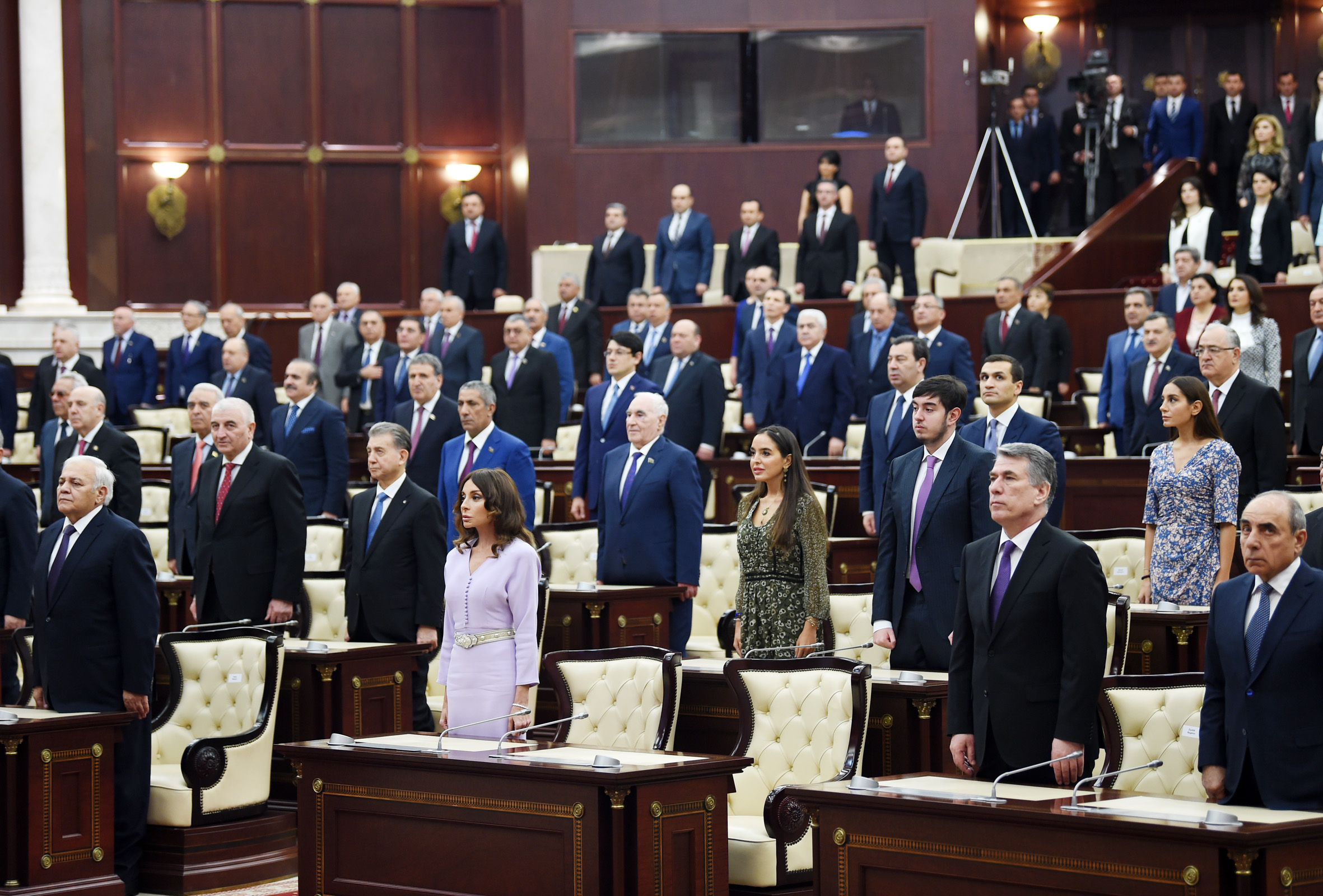 Inauguration ceremony of President Ilham Aliyev held 2018